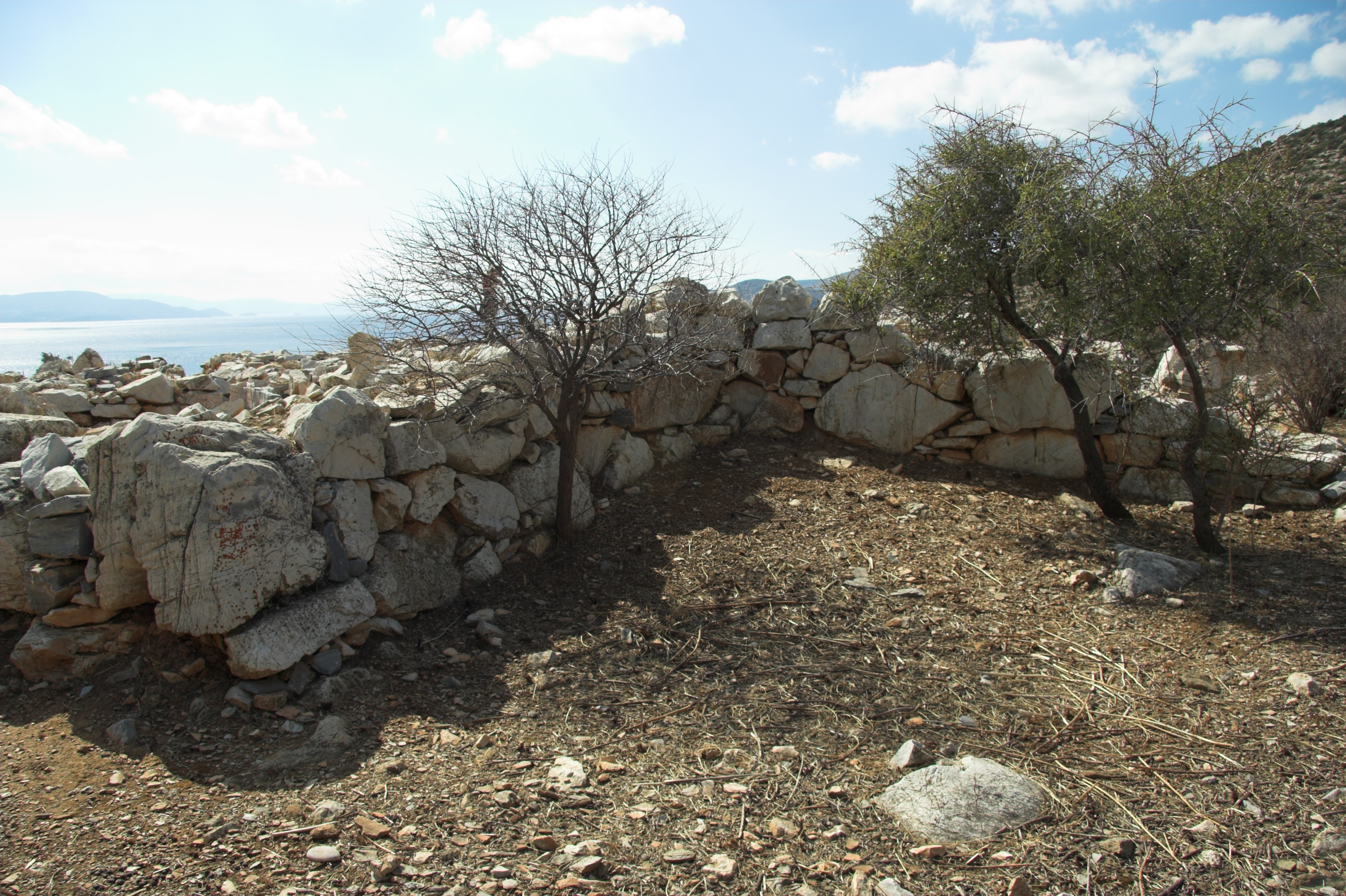 Hill of Almonds in the October afternoon. Early Cycladic settlement in Korfari ton Amygdalon over the bay of Panormos, Naxos, Early Bronze Age.